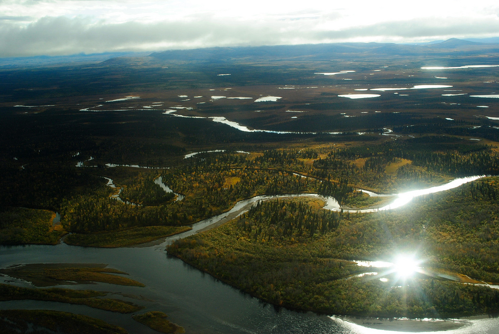 The Mulchatna River lies at the heart of the Nushagak watershed. All five Pacific salmon species spawn in the Mulchatna and it's tributaries - which include the Koktuli and Stuyahok Rivers. Visit for more information about EPA's Bristol Bay Watershed Assessment